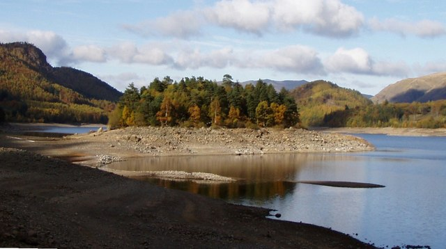 Deergarth How Island, Thirlmere During the drought of 2003 water levels dropped considerably. Some islands were accessible on foot.